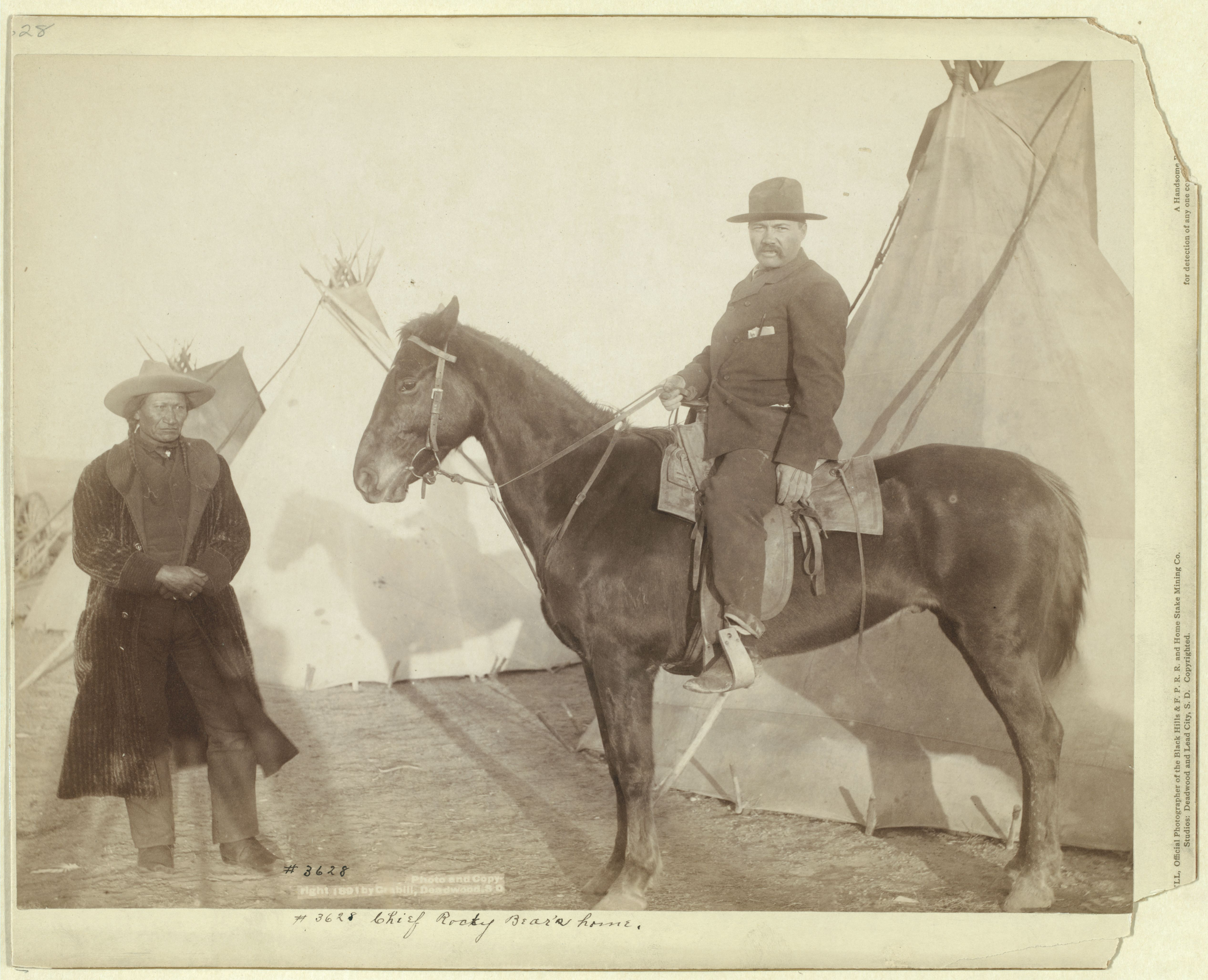 Original title Chief Rocky Bear's home Rocky Bear, Oglala chief, standing to the left of Frank Grouard on horseback; three tipis in the background--probably on or near Pine Ridge Reservation.